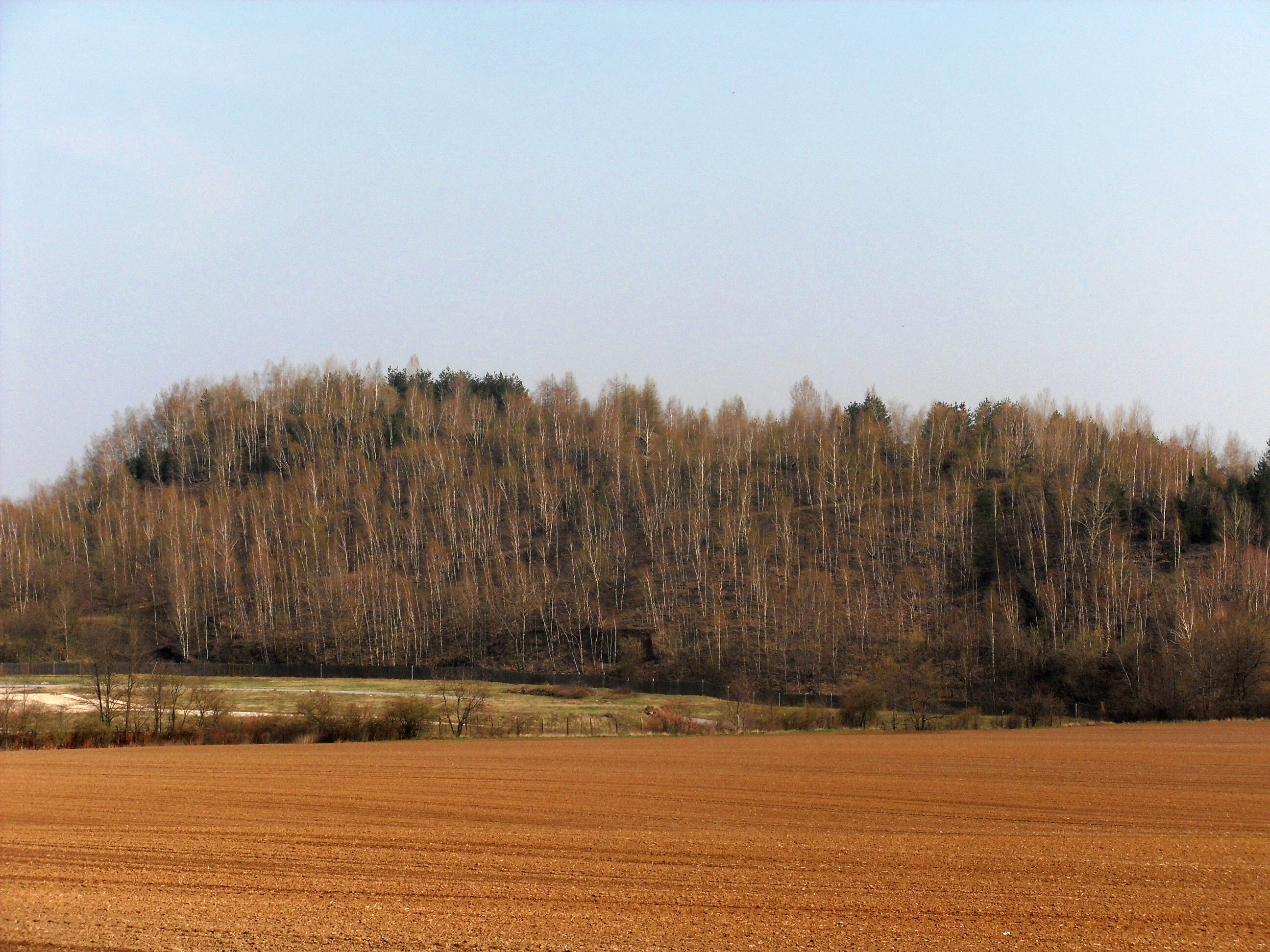 Slag heap, Zbýšov, Brno-venkov District, Czech Republic